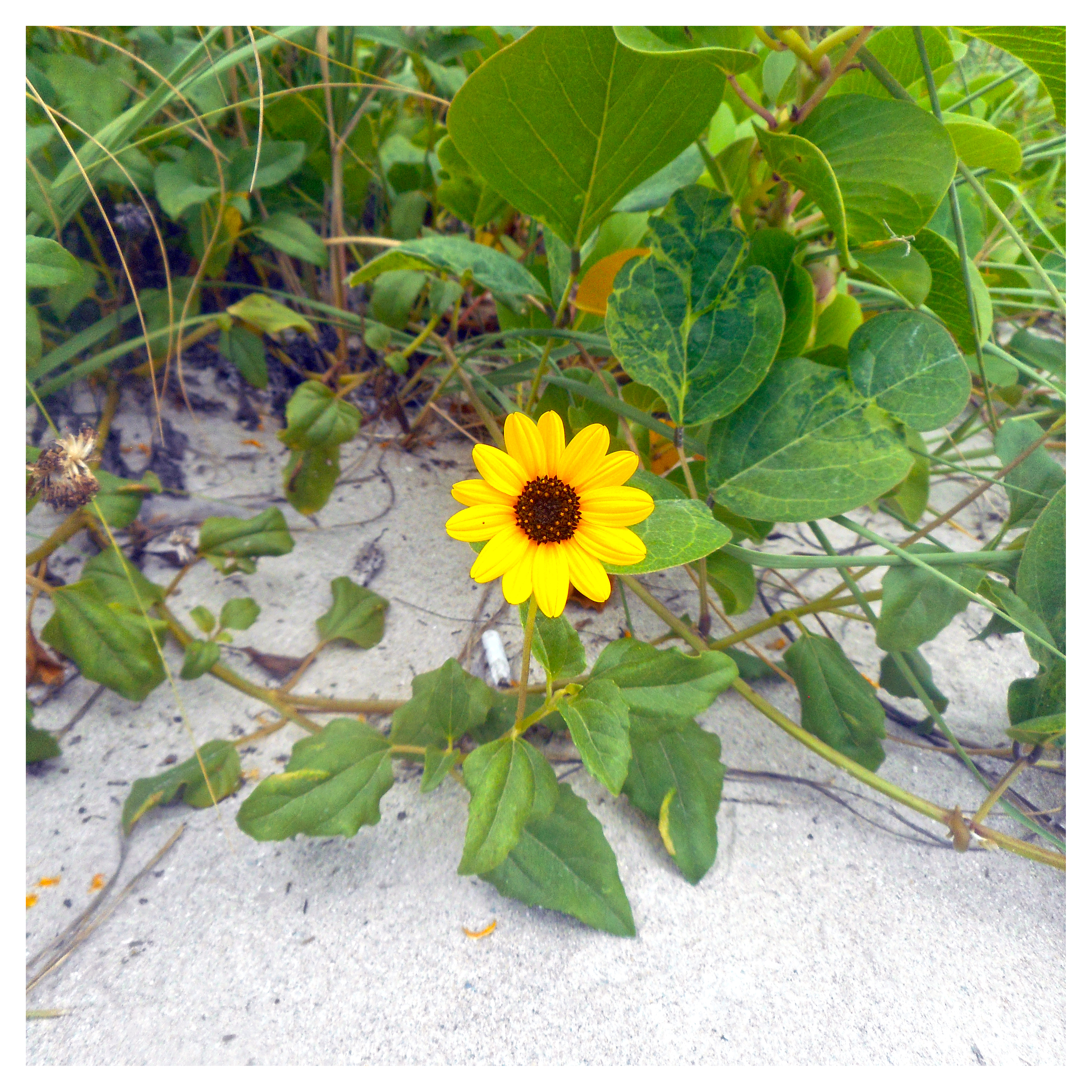 Helianthus debilis - Dune Sunflower